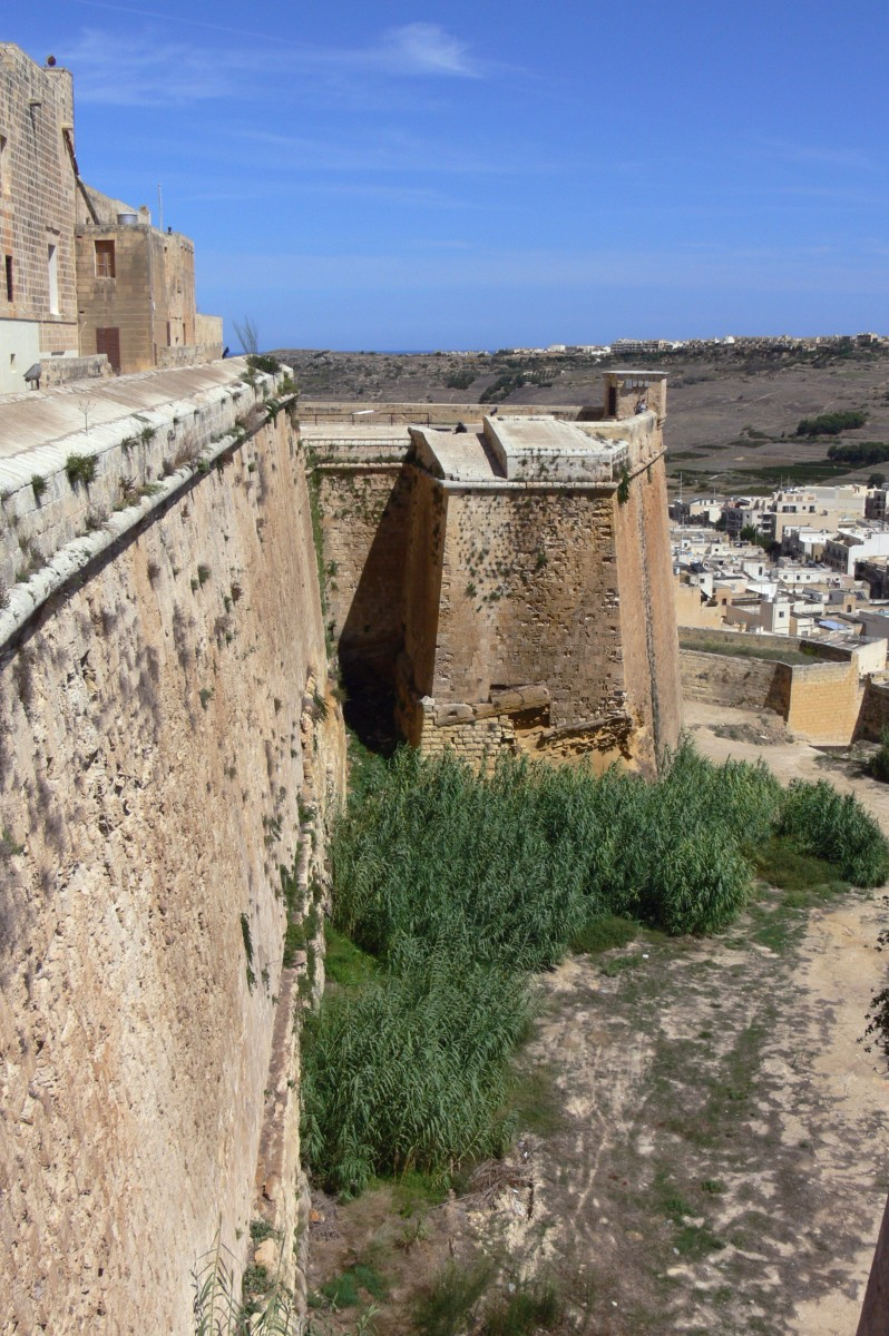 St. John's bastion in the Gozo Citadel